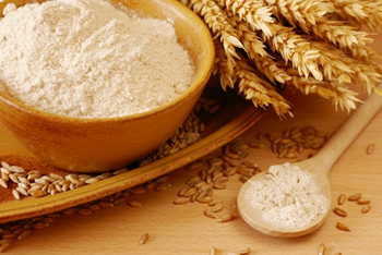 wheat